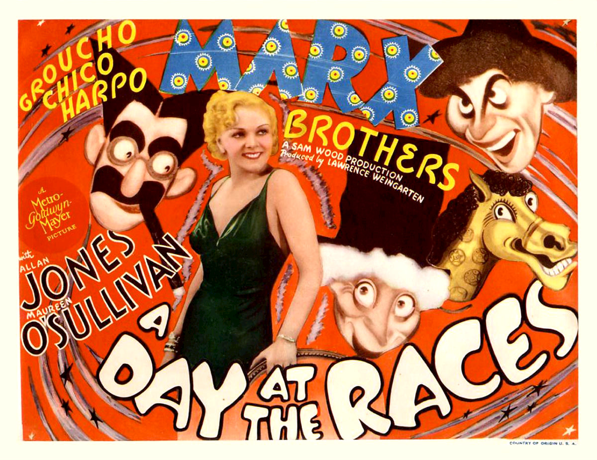 Lobby card from the 1937 film A Day at the Races with the Marx Brothers and Maureen O'Sullivan.